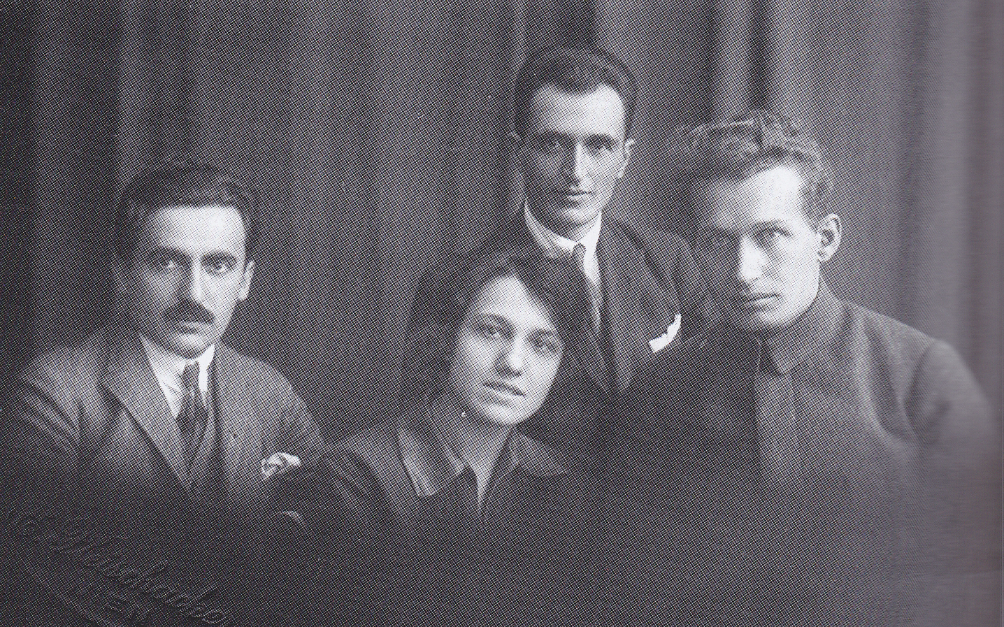 Petar Shandanov and his colegues